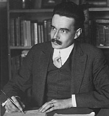 Portrait of the architect, architectural historian, professor and museum director Sidney Fiske Kimball (known as Fiske Kimball), circa 1915. From the Philadelphia Museum of Art Archives/Fiske Kimball Papers. [1]